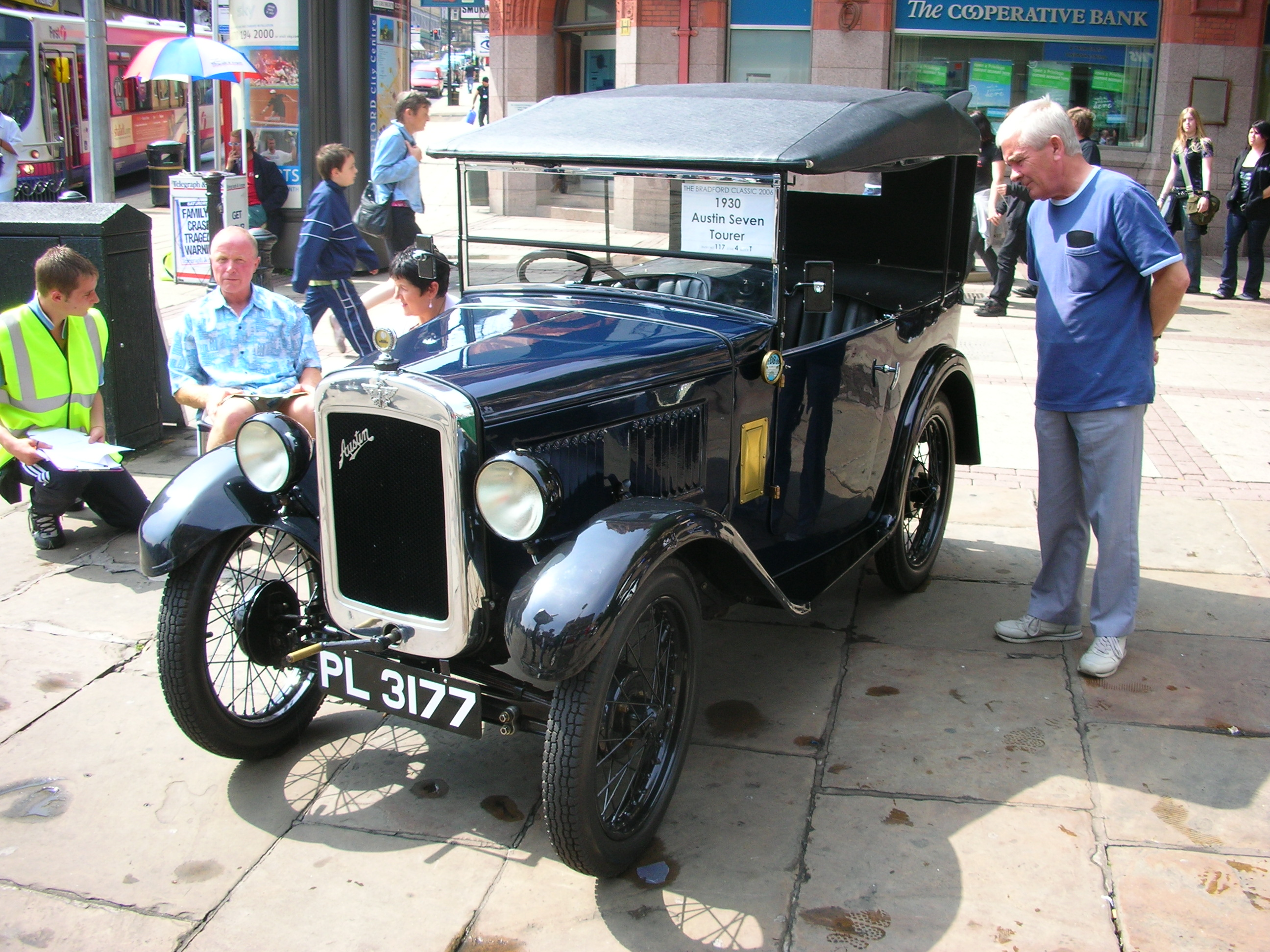 1930 Austin Seven Tourer